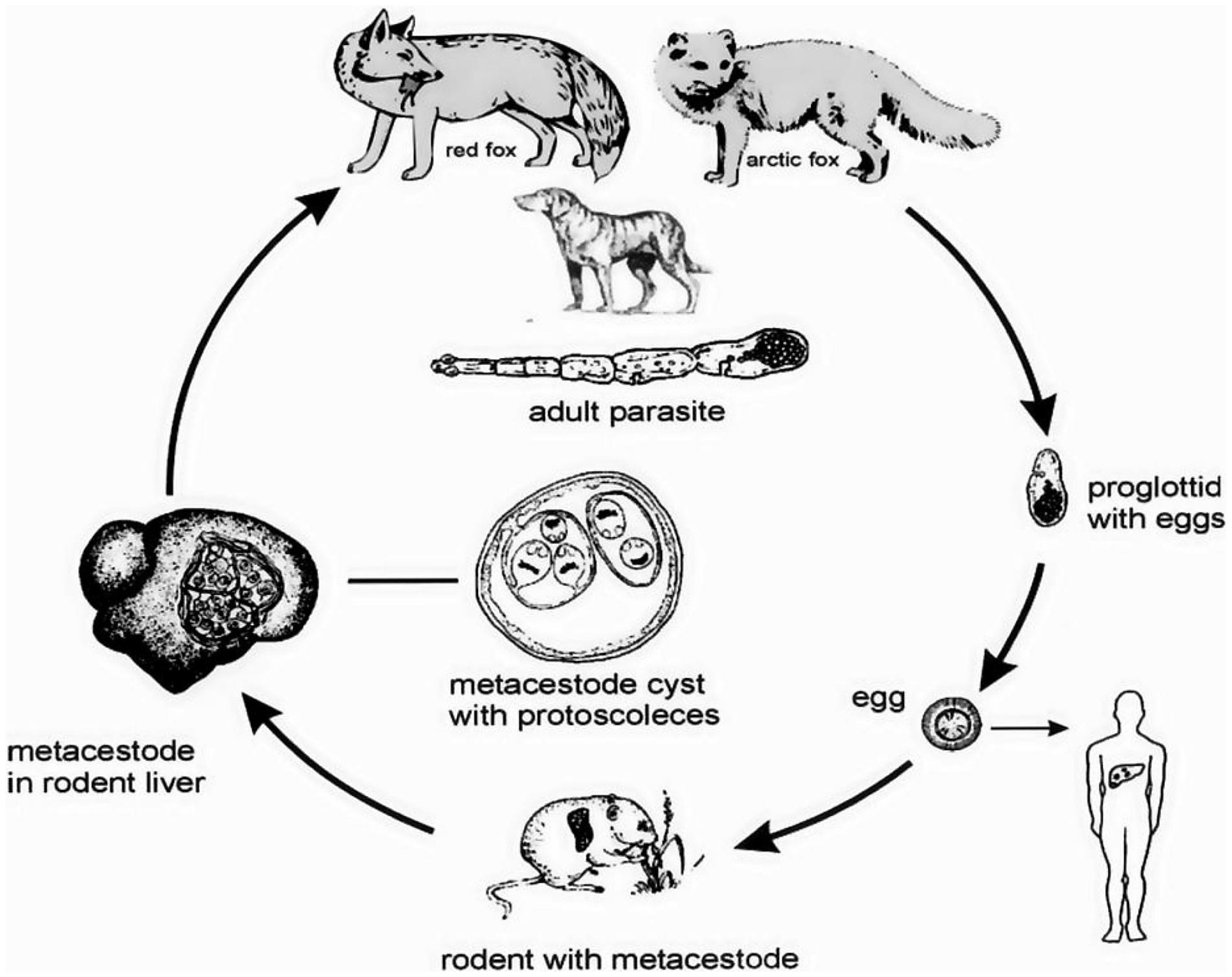 The life cycle of Echinococcus multilocularis; man is infected as an aberrant intermediate host.